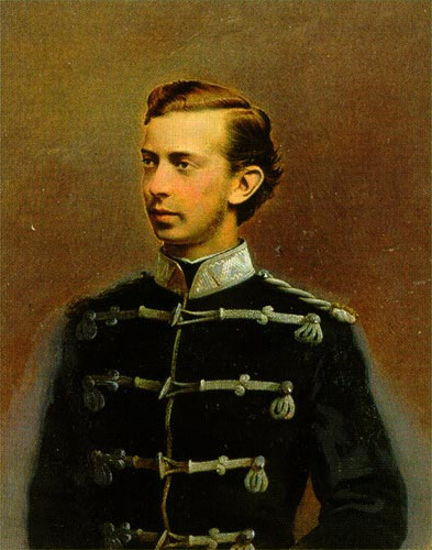 Tsesarevich Nicholas Alexandrovich of Russia (1868-1918)